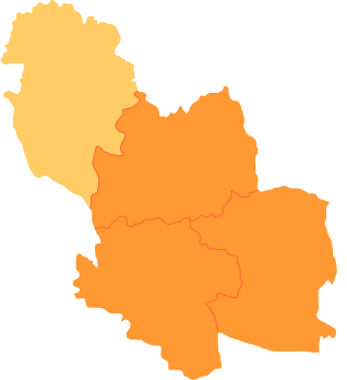 Map of Bozhou in Anhui province, empty